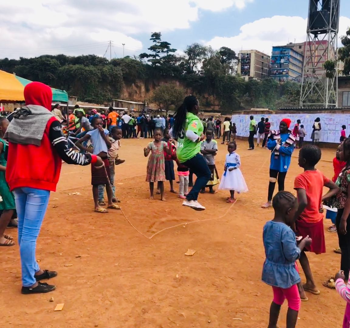 This is an image with the theme "Play" from: Kenya